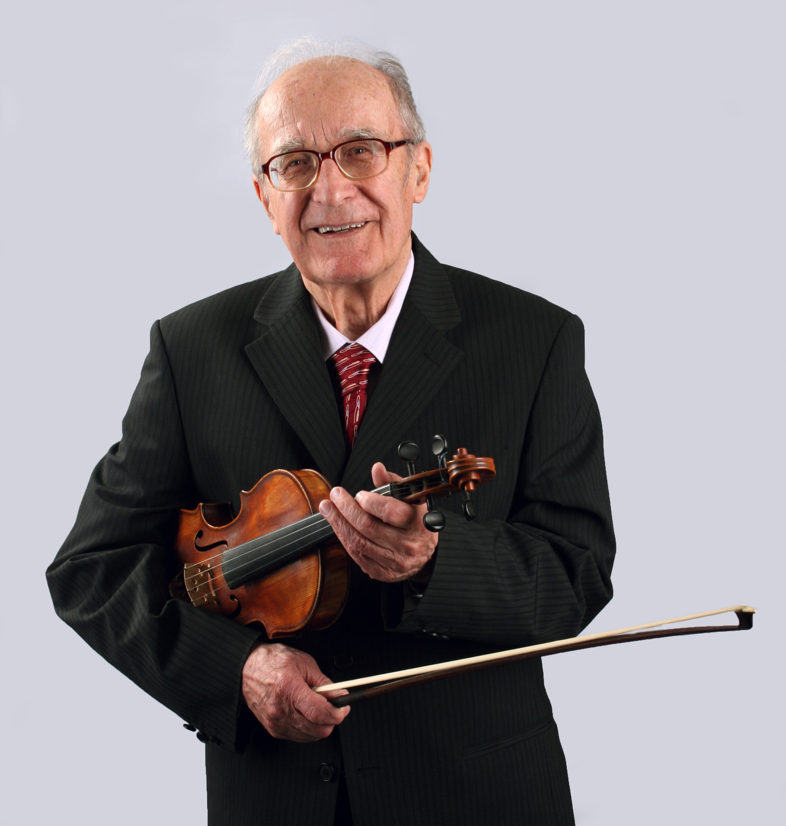 Milan Ryšavý with violin